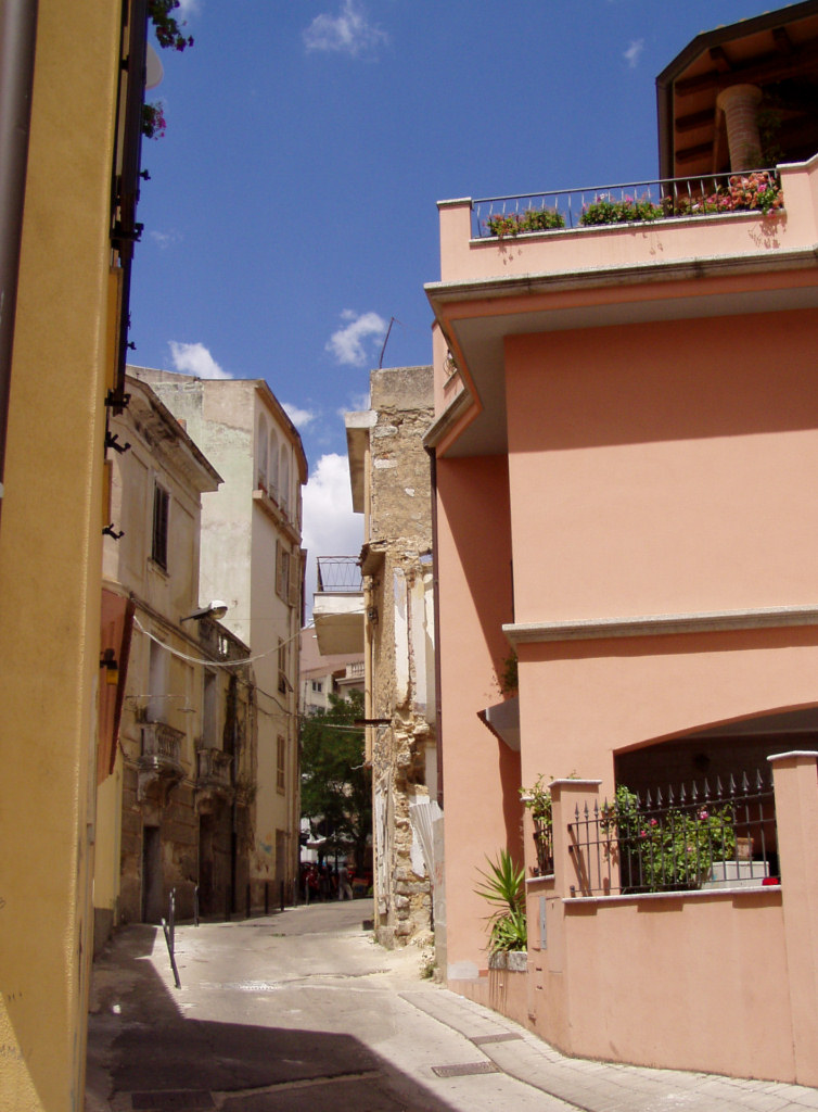 Street in Nuoro, Sardinia, Italy.